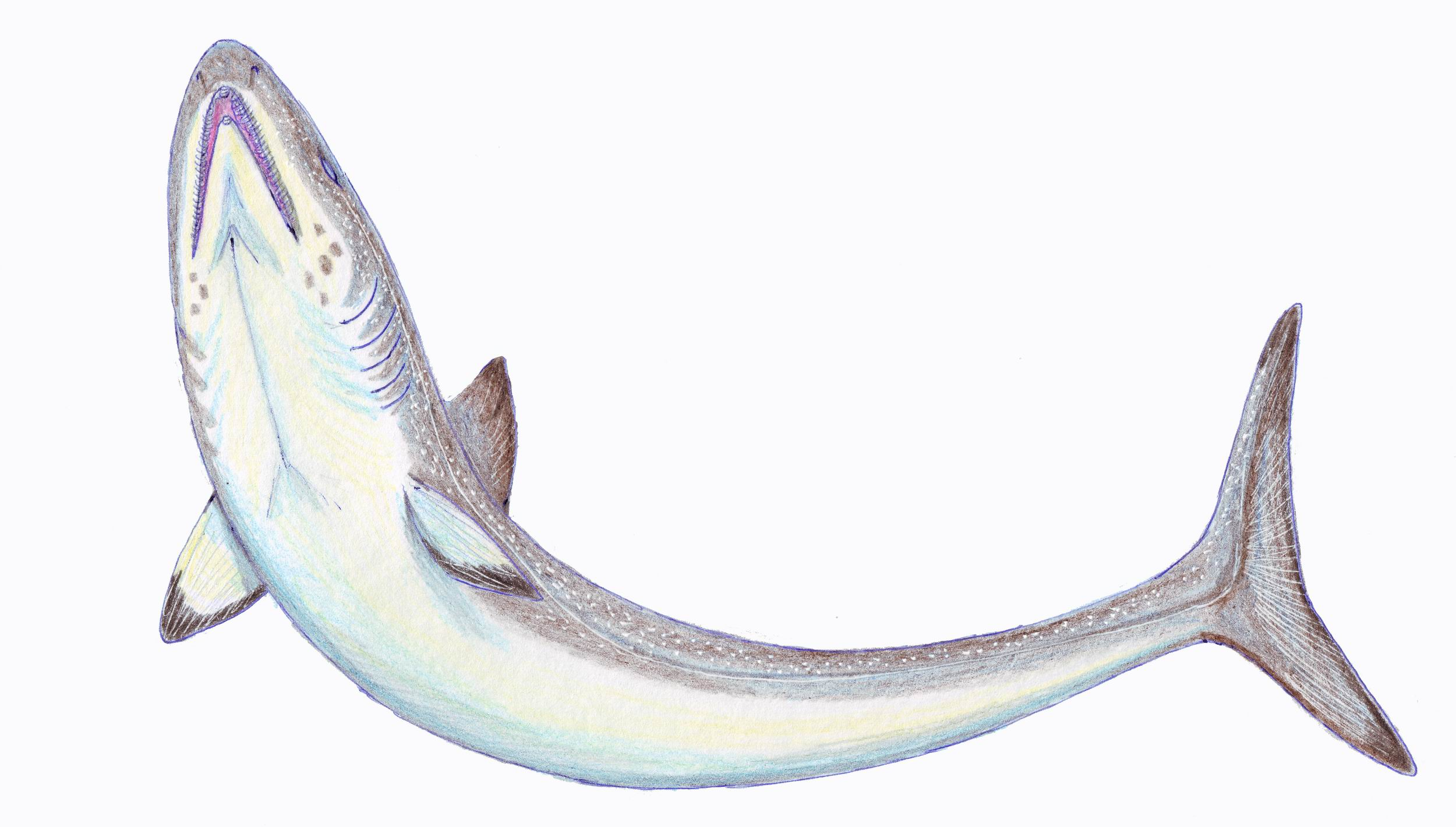 Campodus sp. - restoration of eugeneodontid "shark" based on foto of entire specimen. Carboniferous of Nevada.